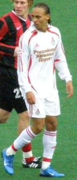 Peter Odemwingie in action for FC Lokomotiv Moscow